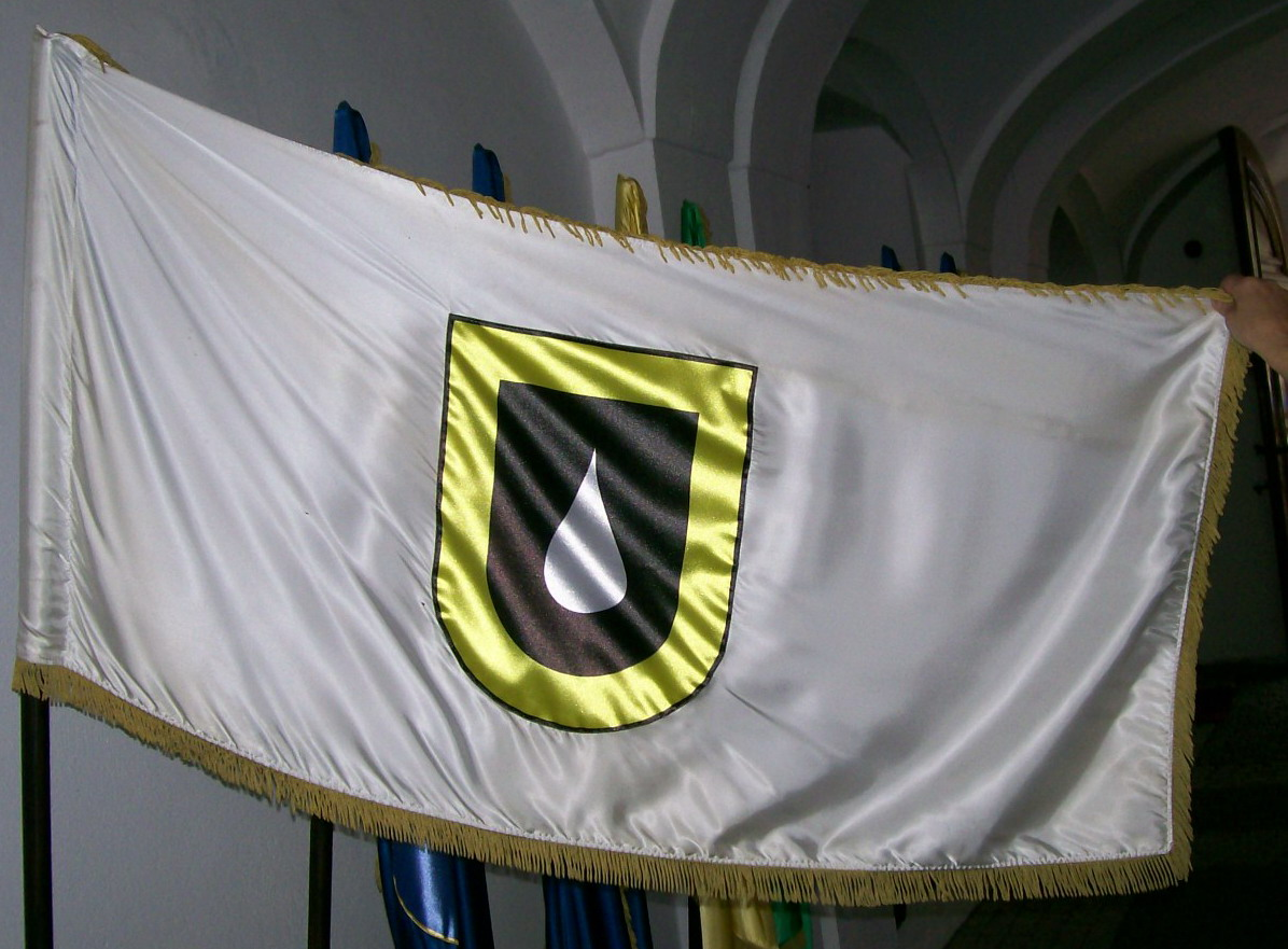 Flag of Municipality of Ljubešćica, Varaždin County, Croatia